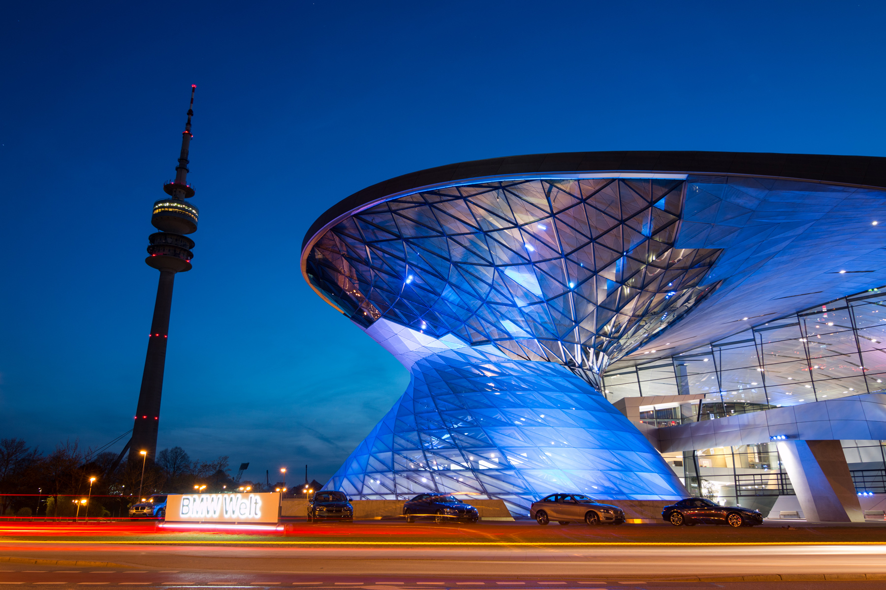 BMW Exhibition Center in Munich